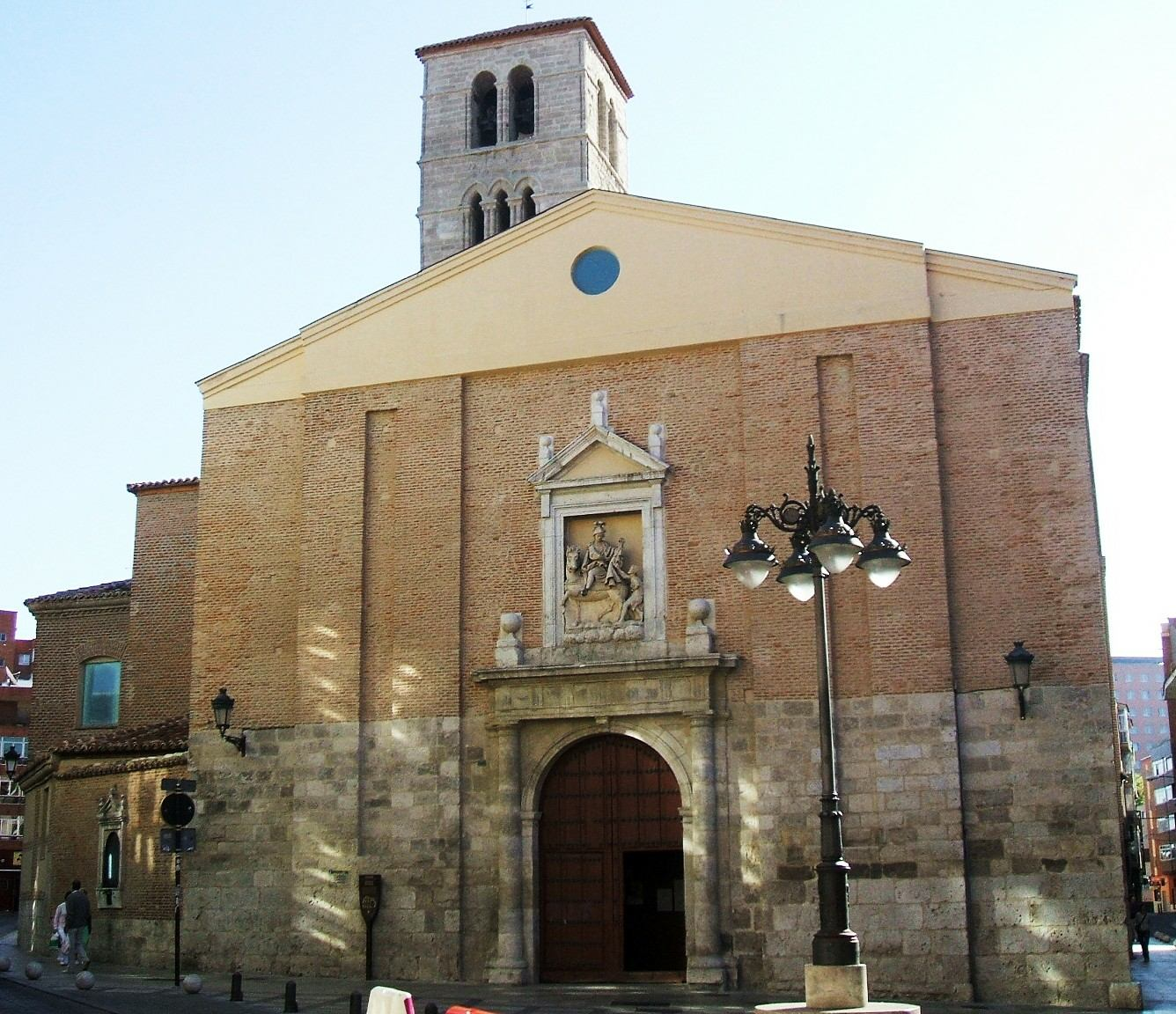 Fachada de la iglesia parroquial de San Martín, Valladolid, España